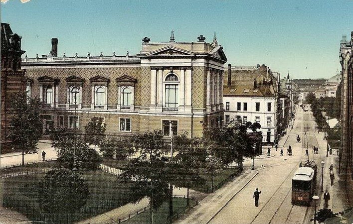 Kristiania Elektriske Sporvei tram on Stortingsgata.